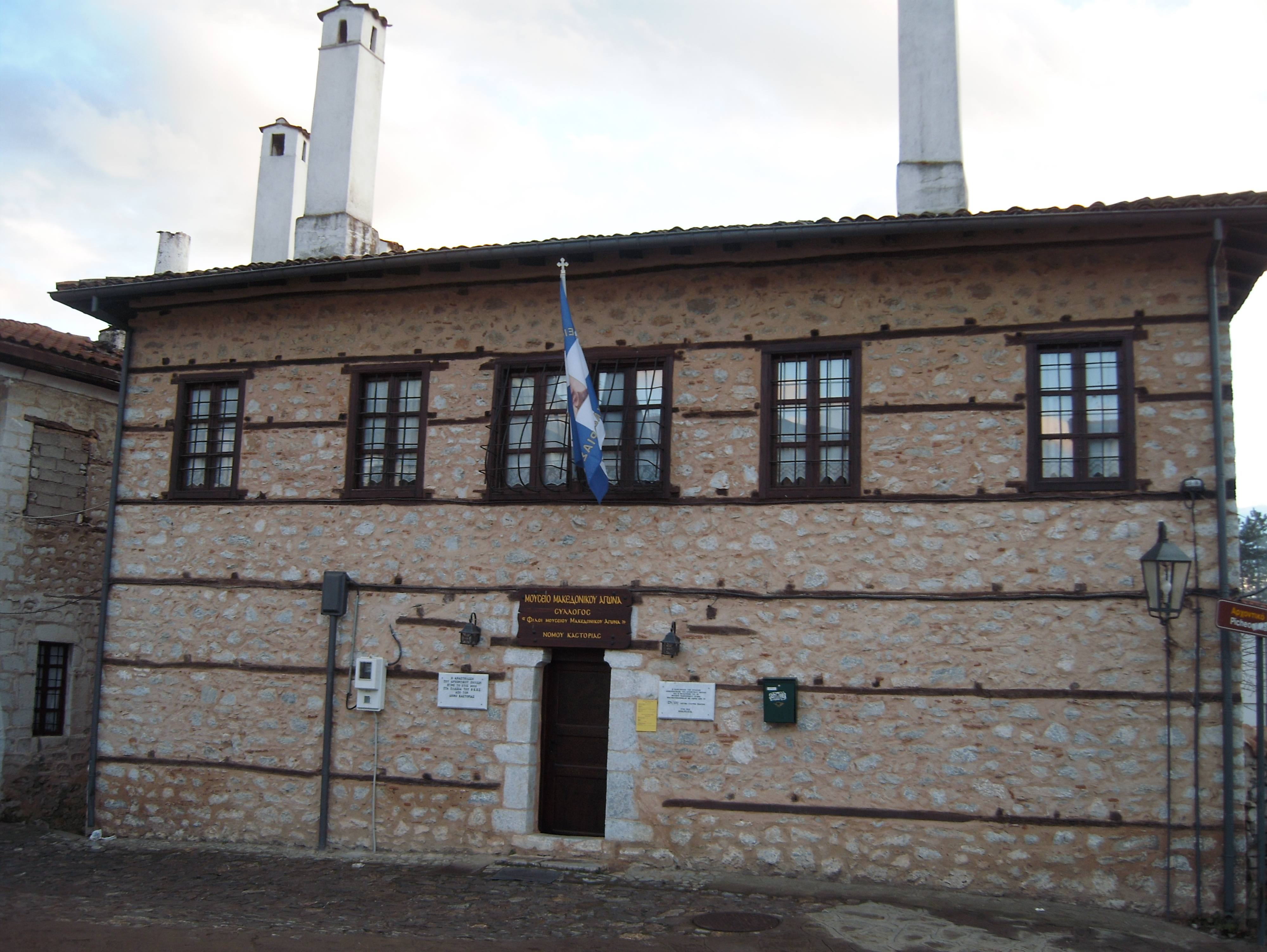 Views of Kostur / Kastoria